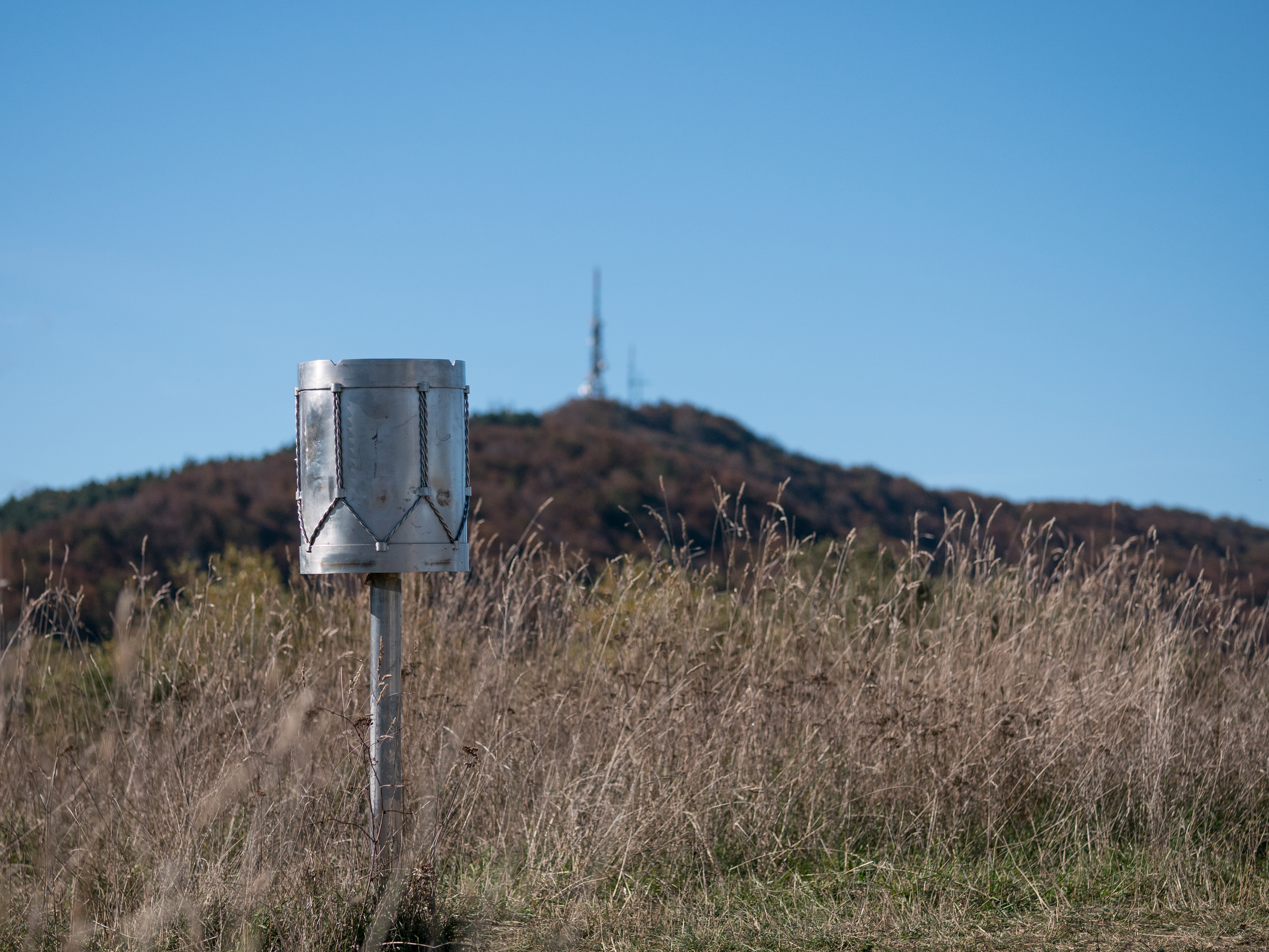 Drum sculpture on the summit of Errogana (also known as San Kiliz, Urgatxi or Alto del Tamboril). Álava, Basque Country, Spain